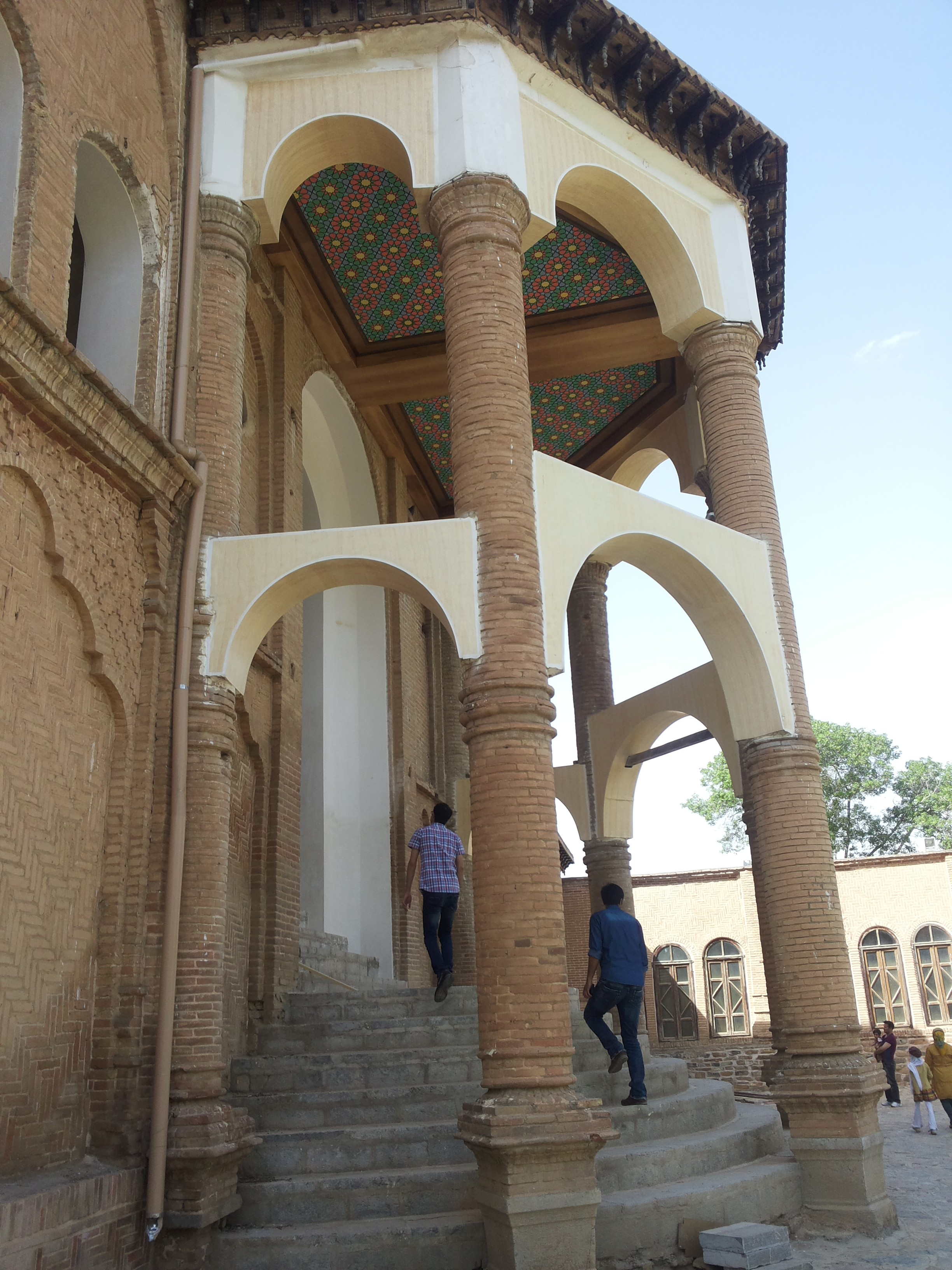 Xesrew Awa in spring 2015.